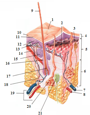 Modified image of original license tag is "Public domain - Work of US fed. gov."